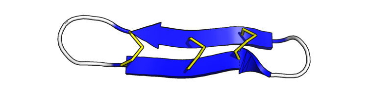 Structure of human retrocyclin-2 defensin. Beta sheet secondary structure in blue, loops in white, disulphides in yellow. The dotted line indicates the peptide bond linking the N-terminus to the C-terminus to create the cyclic structure.